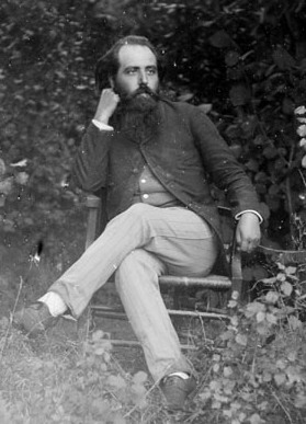 Prospèr Estieu's portrait (before 1910, by Eugèni Trutat)